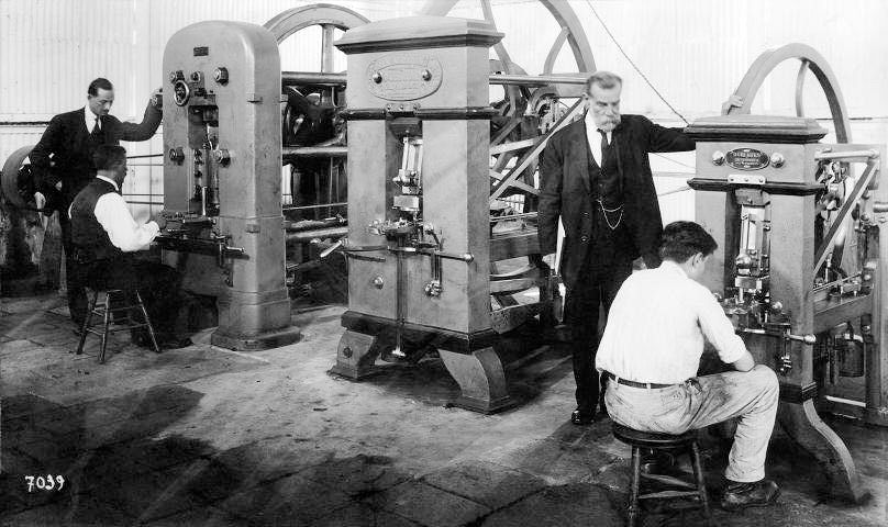 Mint of Costa Rica in 1923